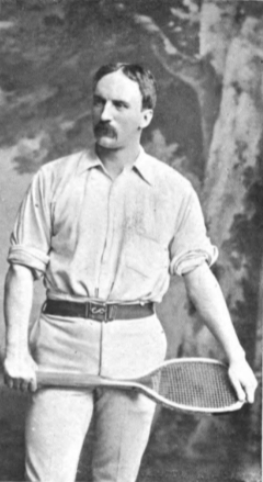 Ernest de S. H. Browne (1855-1946 ?), Irish tennis player, participant in Wimbledon singles between 1882 and 1885